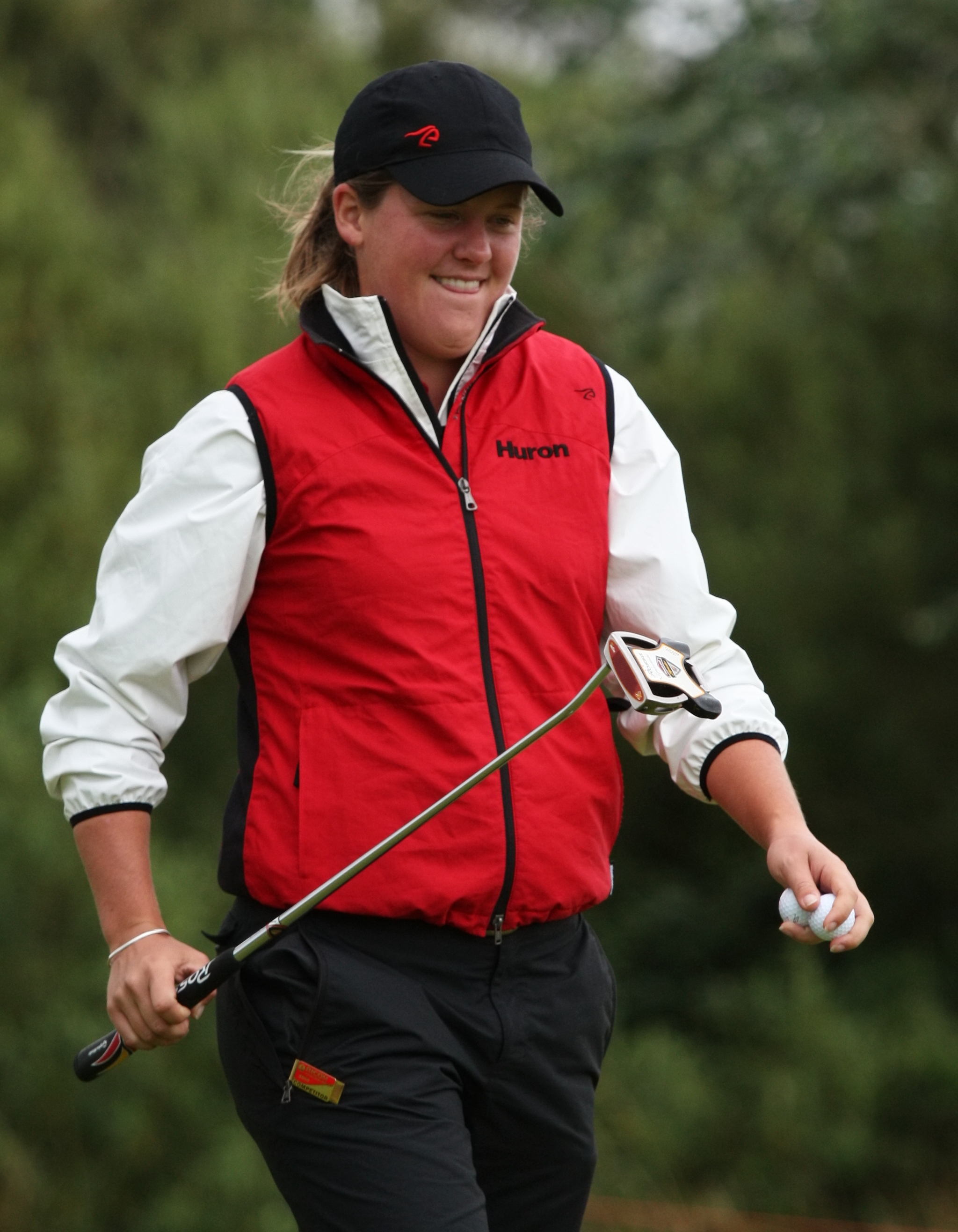 LYTHAM ST ANNES, UNITED KINGDOM - JULY 29: Karin Sjödin of Sweden on the 11th green during third practice round before 2009 Ricoh Women's British Open held at Royal Lytham & St Annes on July 29, 2009 in Lytham St Annes, England. (Photo by Wojciech Migda)